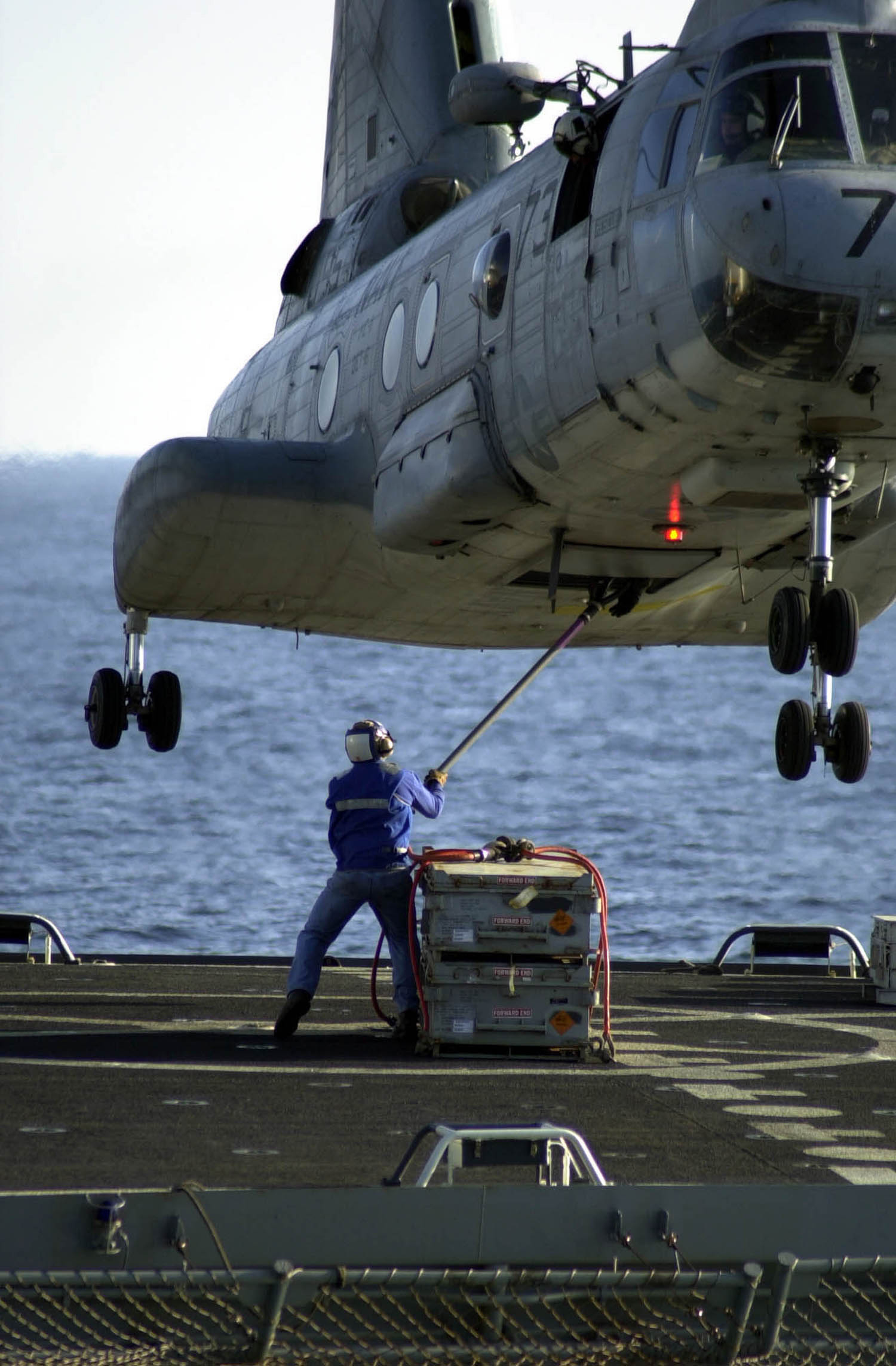 At sea aboard USS Nimitz (CVN 68) Nov. 2, 2002 -- A civilian crew member aboard the ammunition ship USNS Shasta (T-AE 33) attaches a cargo pendant to the bottom of an CH-46 “Sea Knight” assigned to the “Gunbearers” of Helicopter Combat Support Squadron One One (HC-11). The “Sea Knight” is conducting a vertical replenishment with the Nimitz. Nimitz is currently participating in Battle Group Sustainment Exercises off the coast of Southern California. U.S. Navy photo by Airman Apprentice Mark Rebilas. (RELEASED)